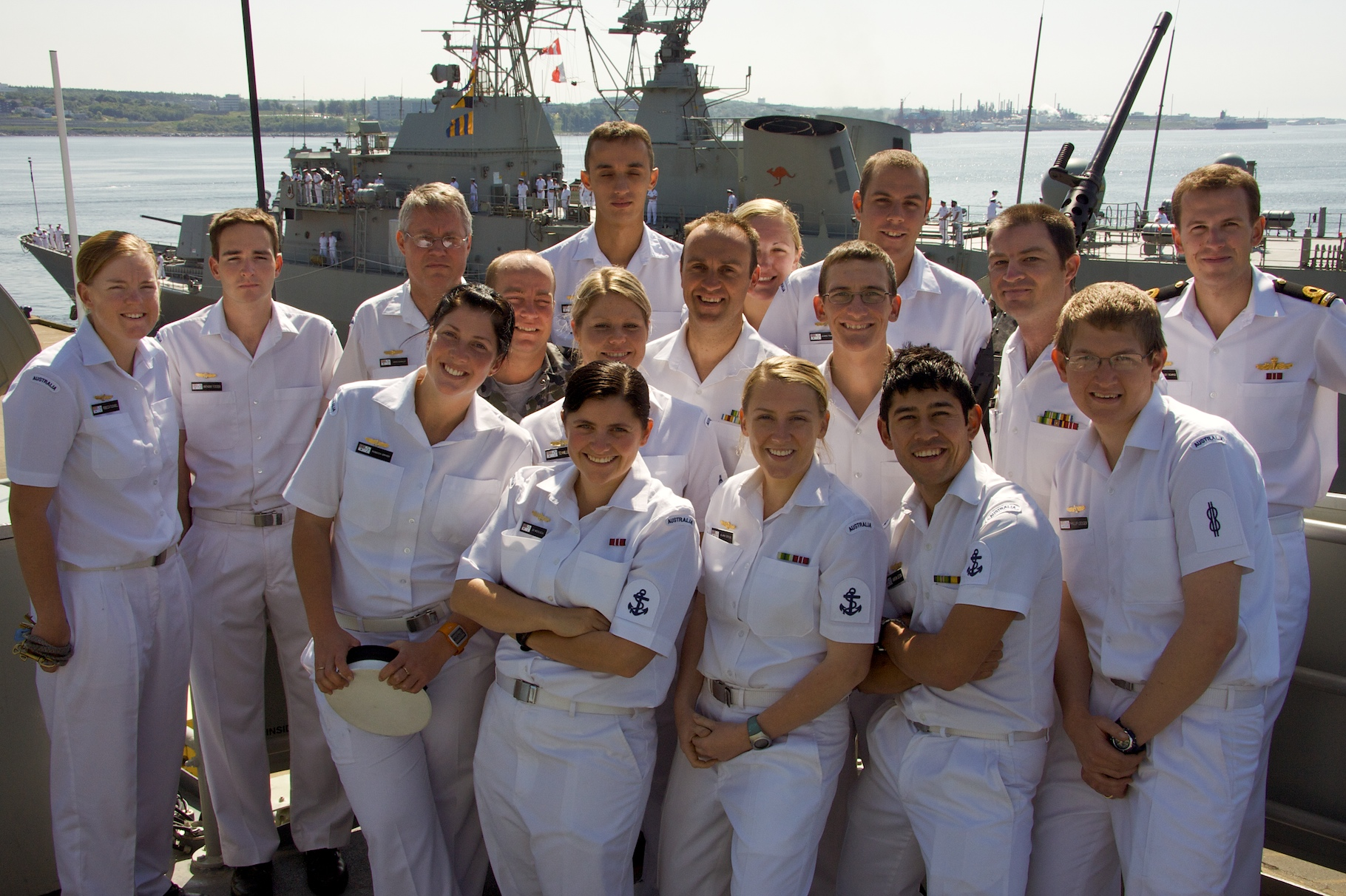 Royal Australian Navy Sailors arriving in Canada during Exercise Northern Trident 2009